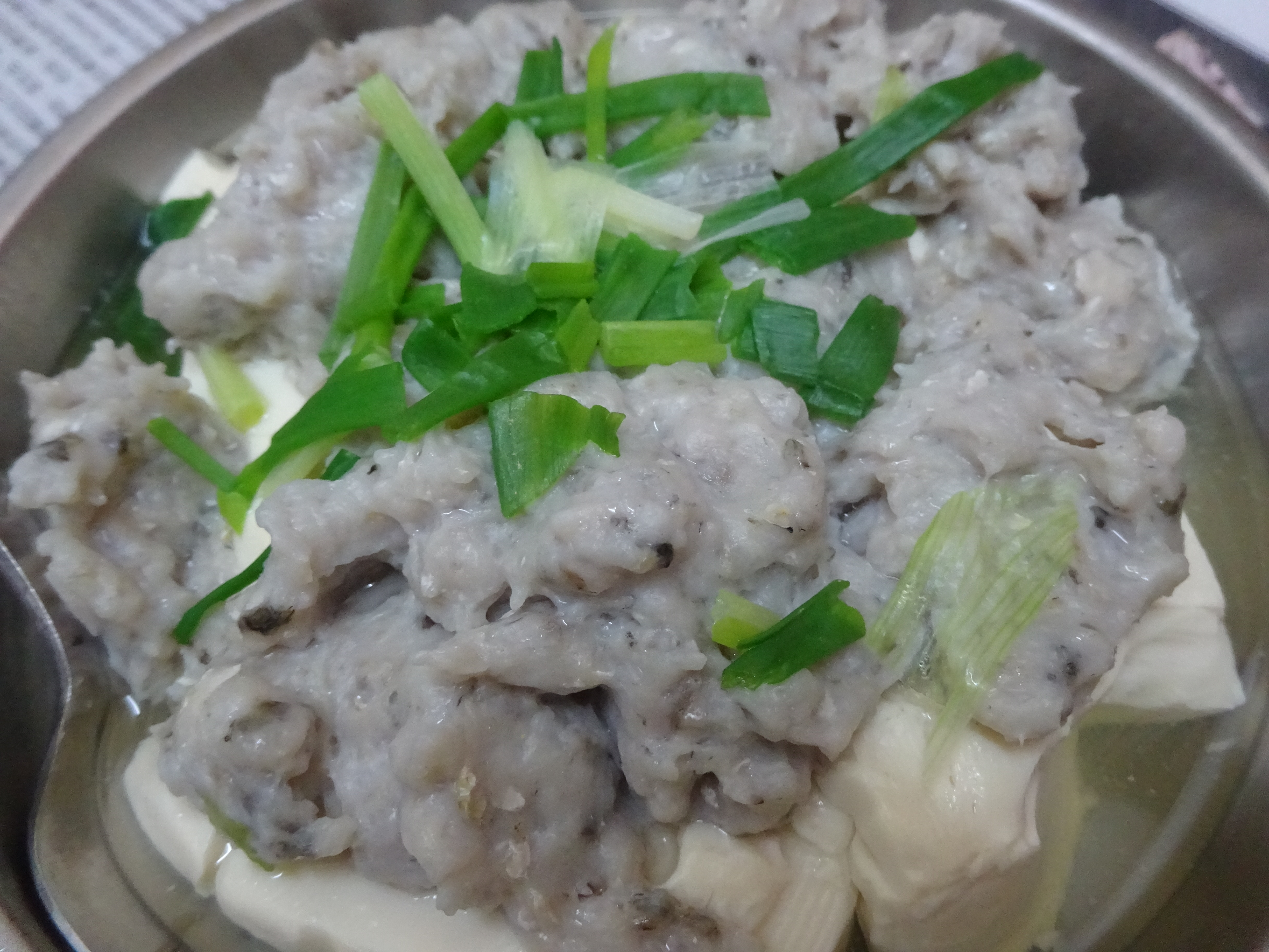 food steamed Minced mud carp 鯪魚 Dace fish meat 肉魚 Bean Curd Tufo product 豆腐製品 Chinese spring onion